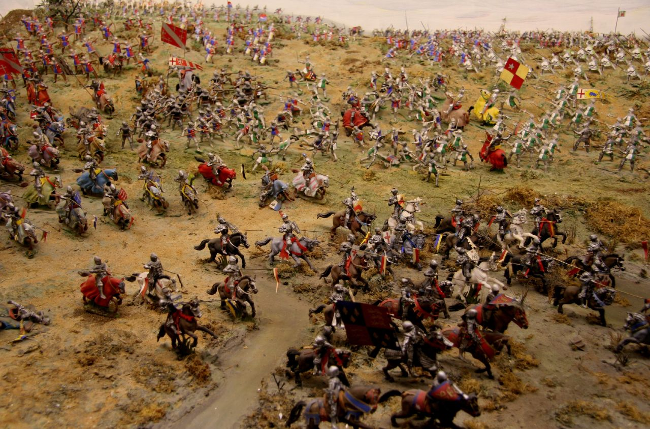 Bosworth Battlefield Heritage Centre's model diorama of the Battle of Bosworth Field, installed since its establishment in 1974.